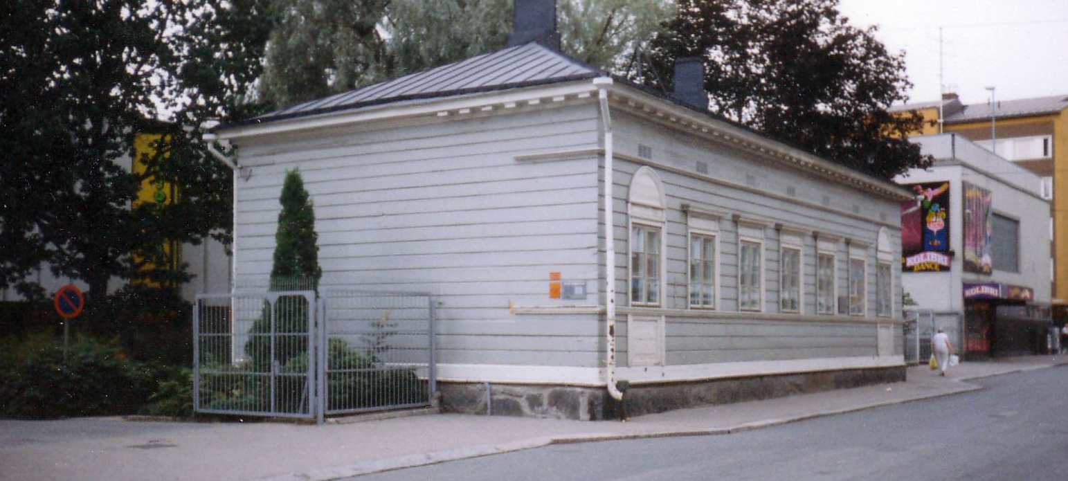 Birthplace of Jean Sibelius, Hallituskatu 11, Hämeenlinna, Finland